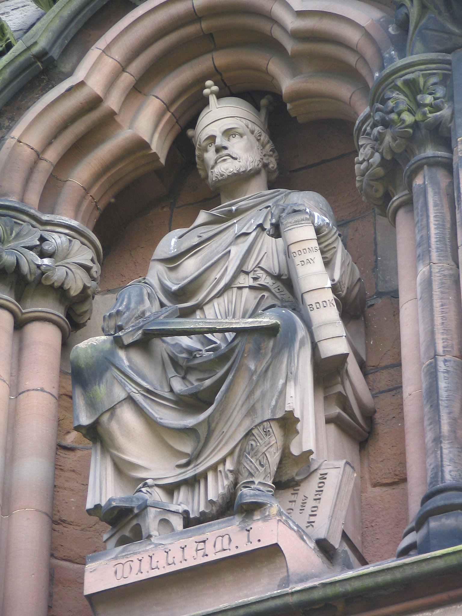 Sculpture of King William I on the exterior of Lichfield Cathedral